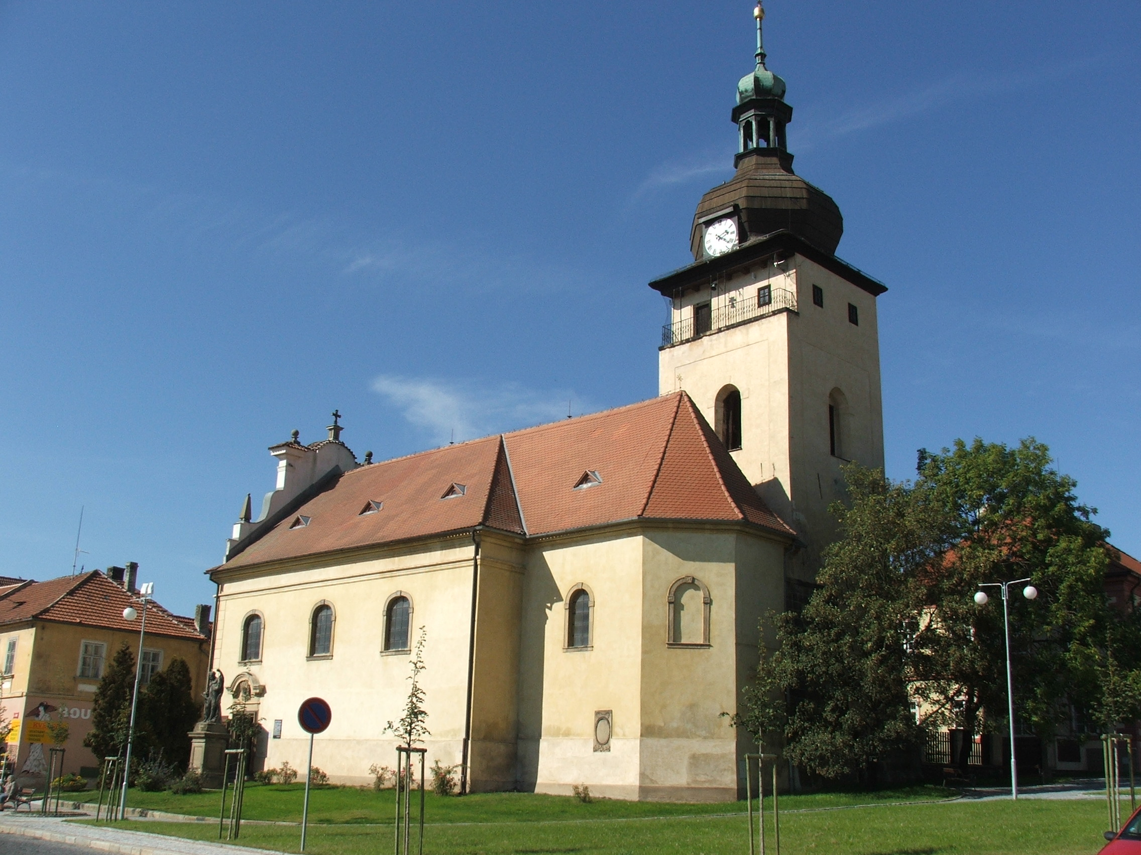 Church of Saint Peter and Paul in Unhošť, Czechia